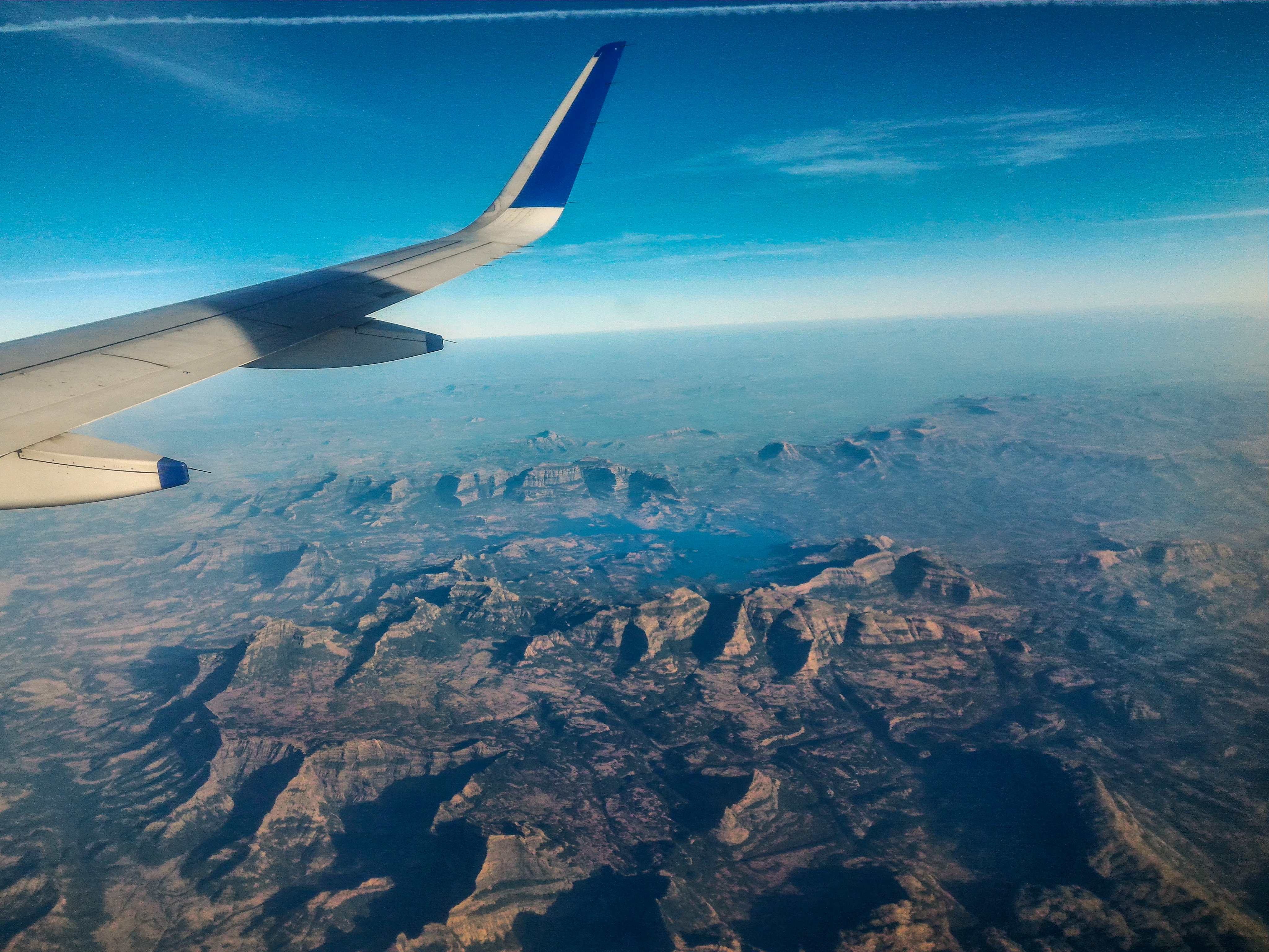 Kalsubai peak - to the North of Bhandardara backwaters (as seen from 20,000 feet)